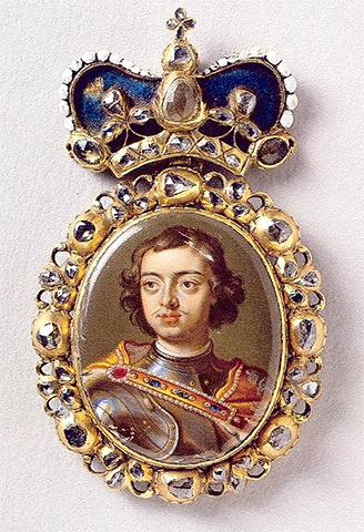 18th-century diamond order of Peter the Great